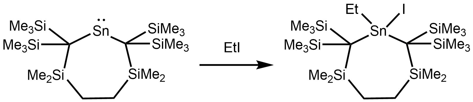 Example reaction of the insertion of stannylene to ethyl iodide from David Smith's work in 2002.